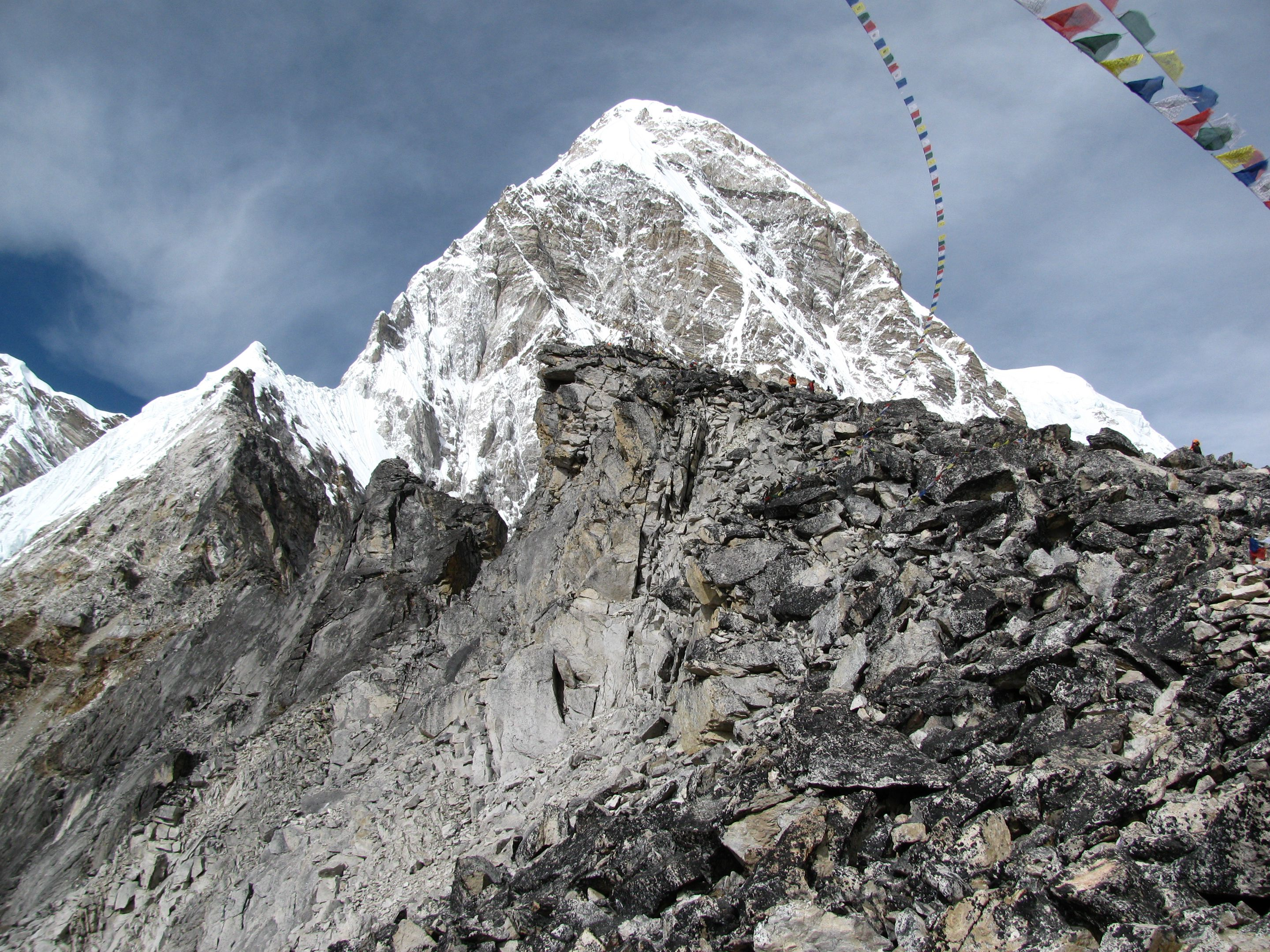 Kala Patthar appears in the foreground with Mt. Pumori looming behind.